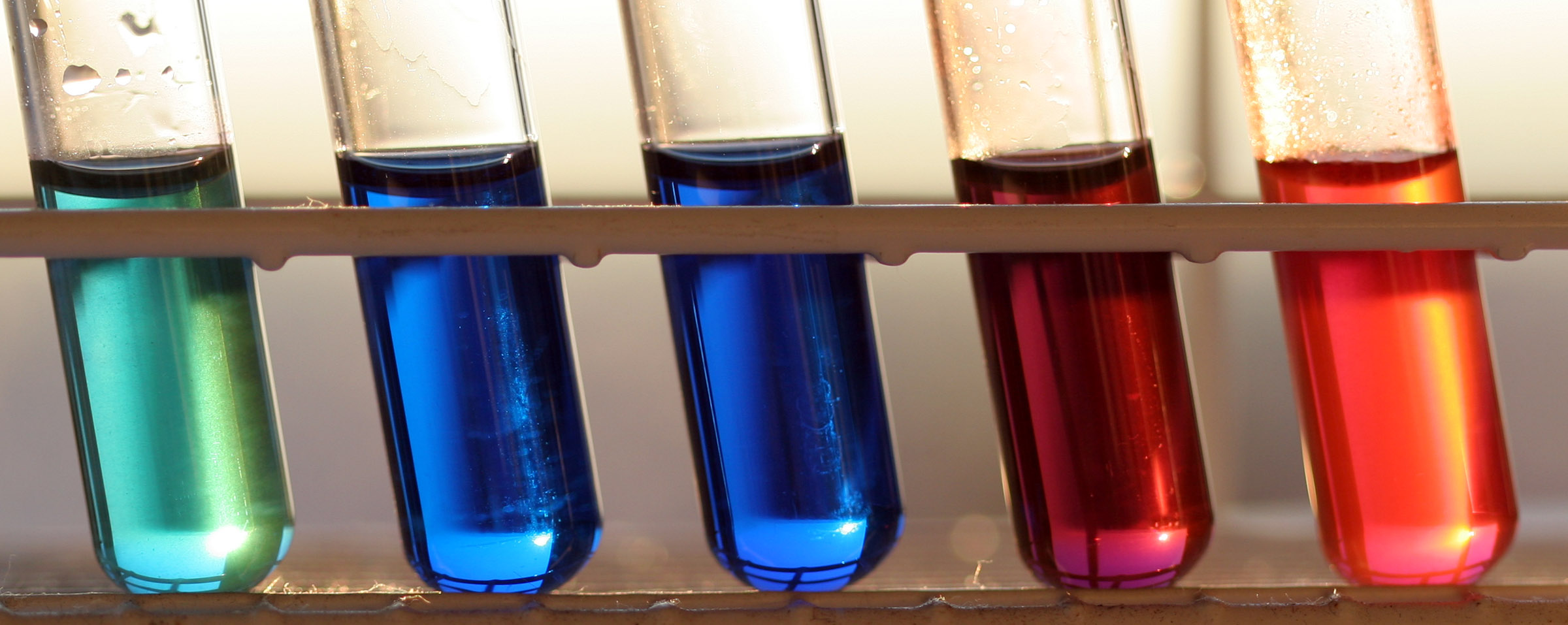 Nile blue hydro chloride in water at daylight and different pH-values. From left to right: pH 0, pH 4, pH 7, pH 10, pH 14.